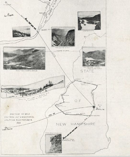 Route of 120 mile Eastern International Dog Team Race Feb. 2,3,and 4, 1922 from Brown Bulletin (Brown Company) Berlin, New Hampshire published in the year 1922